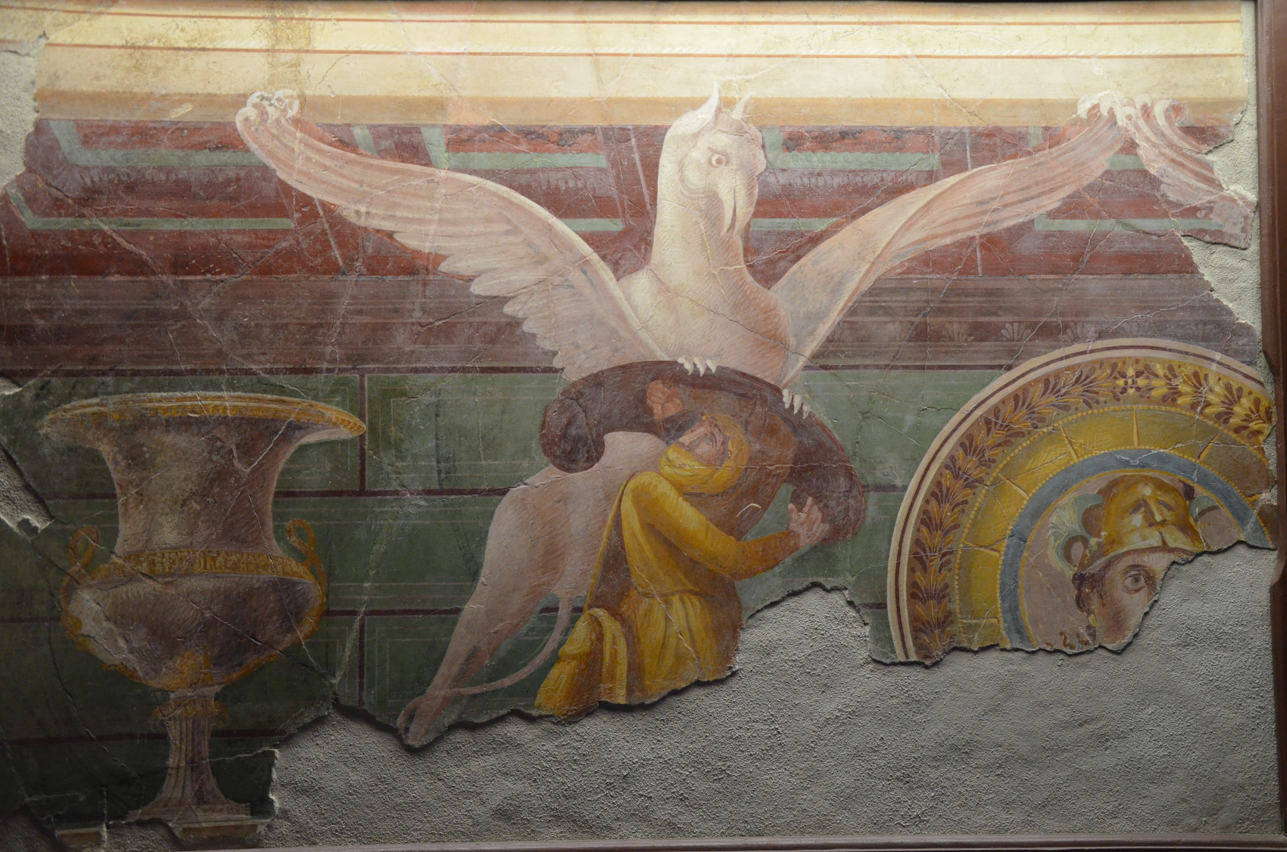 Monsters. Fantastic Creatures of Fear and Myth Exhibition, Palazzo Massimo alle Terme, Rome